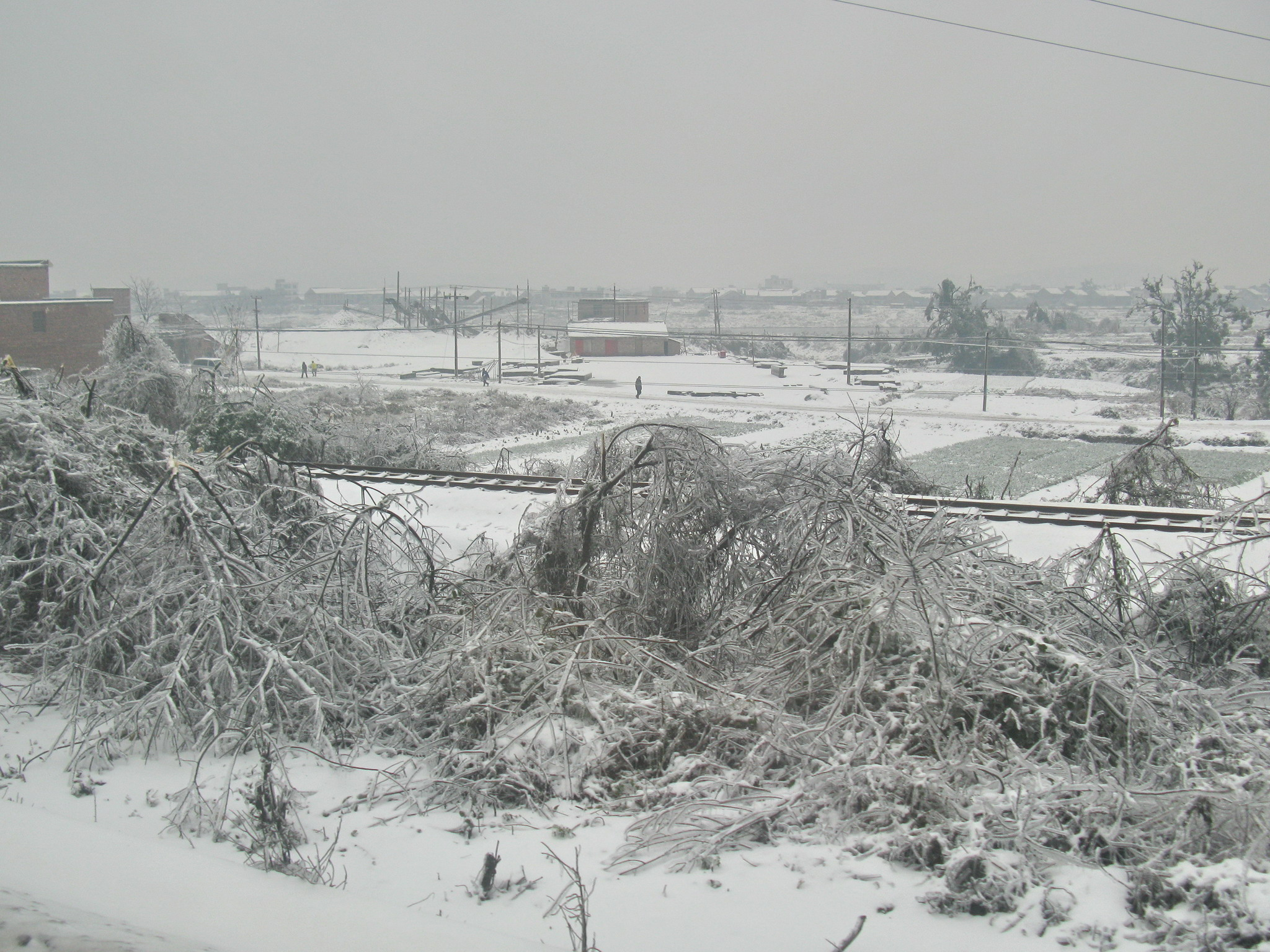 Countryside of Leiyang during 2008 Chinese winter storms.